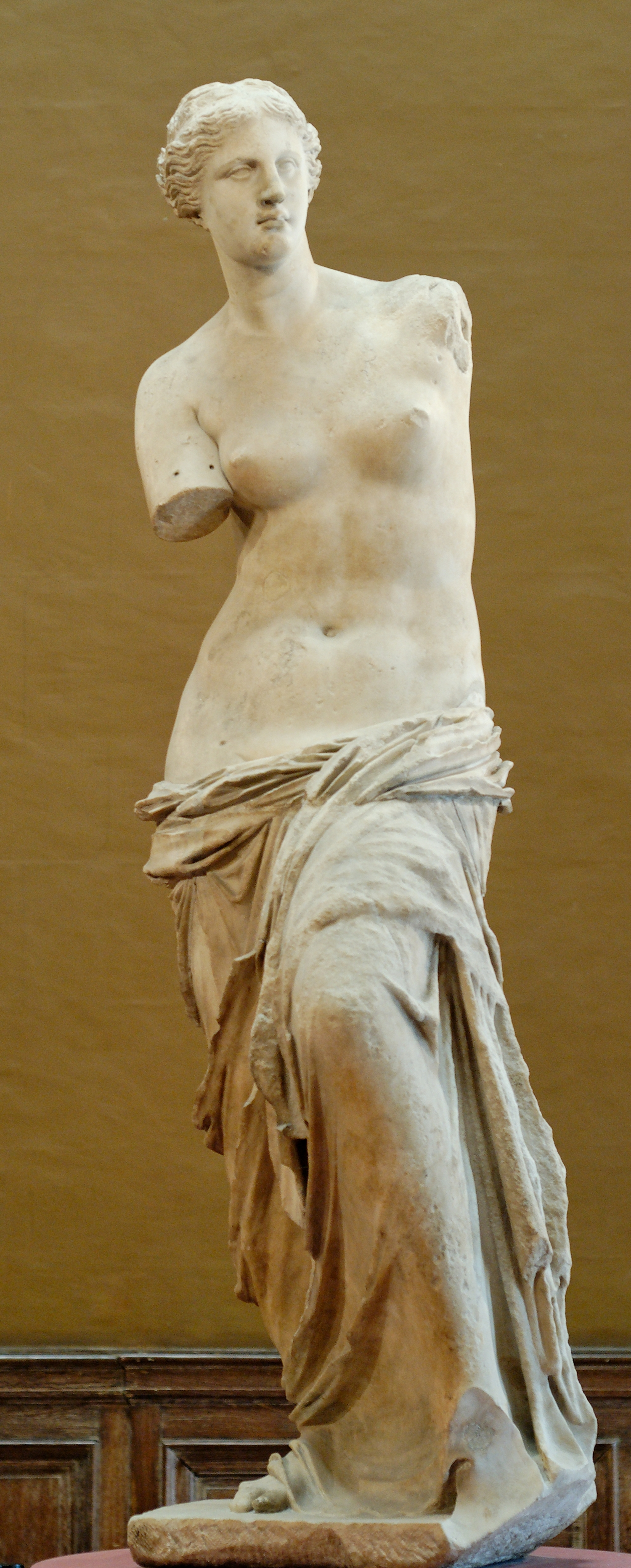 So-called “Venus de Milo” (Aphrodite from Melos). Parian marble, ca. 130-100 BC? Found in Melos in 1820.